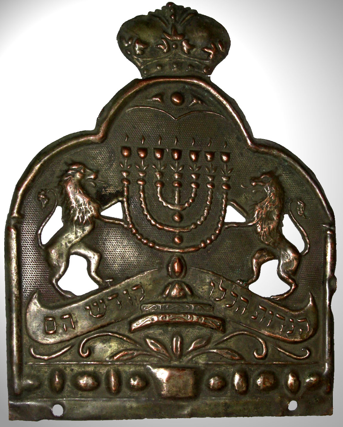 Thoraschild (Tas), copper driven, silver plated